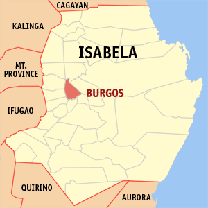 Map of Isabela showing the location of Burgos